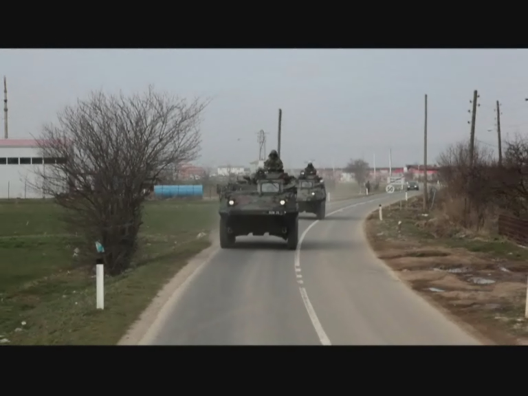 Mowags on Patrol in Kosovo as part of the 41st Inf Gp KFOR